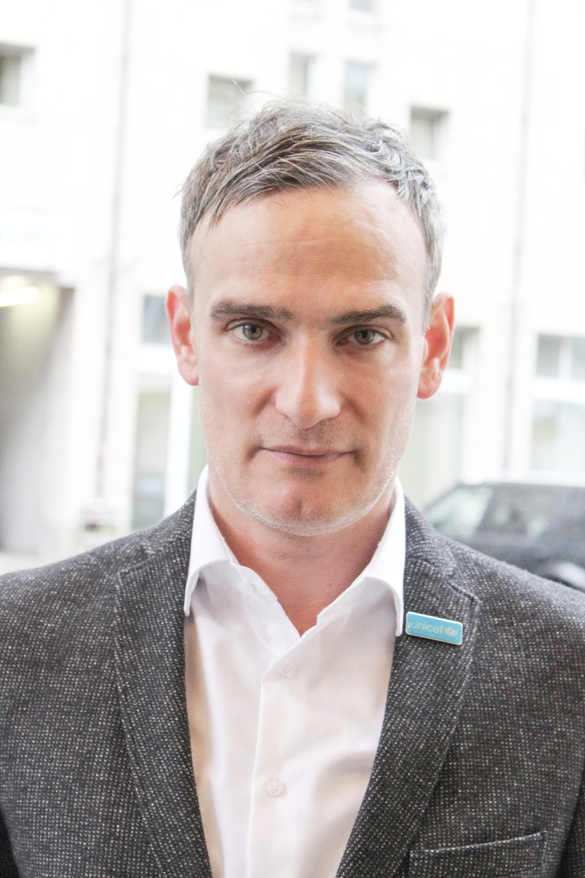 Anatole Taubman Portrait